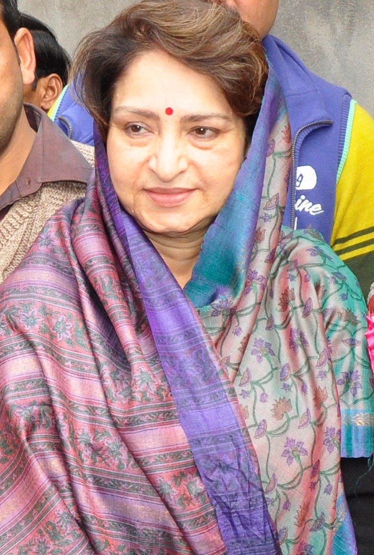 File shows Maya Singh, minister of MP